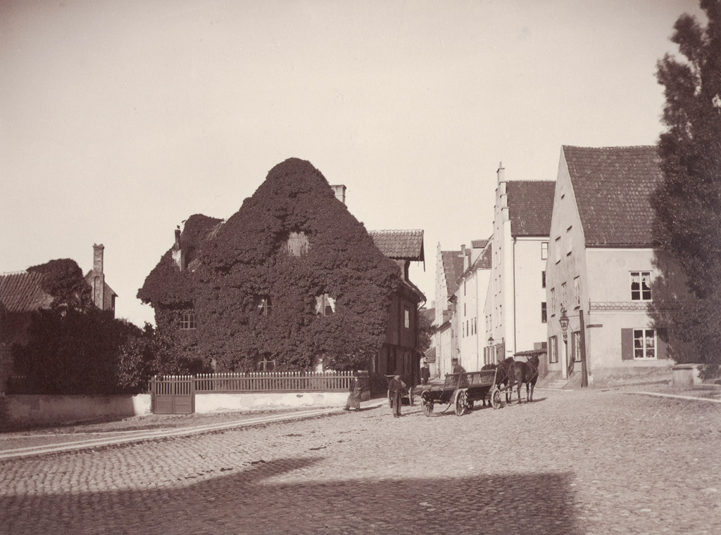 The house of Burmeister at Donners plats (Donner Square) in Visby. The gable covered with ivy. Burmeisterska huset vid Donners plats i Visby. Gaveln täckt av murgröna. Parish (socken): Visby Province (landskap): Gotland Municipality (kommun): Gotland County (län): Gotland Photograph by: Carl Curman Date: 1890s Format: Albumen print Persistent URL: Read more about the photo database (in english)